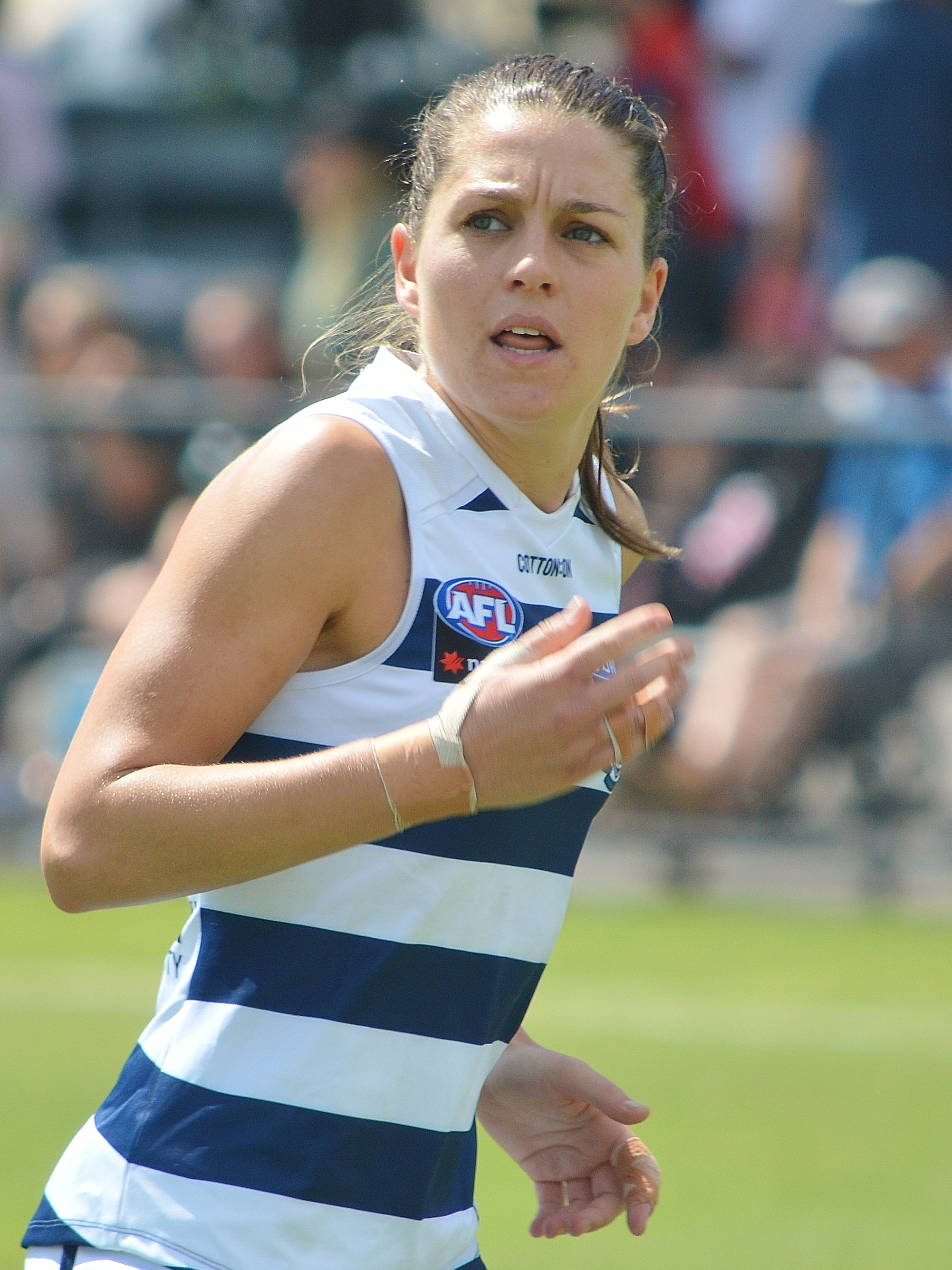 Danielle Higgins with Geelong in the round 4 2020 AFLW match against Richmond at Queen Elizabeth Oval in Bendigo.